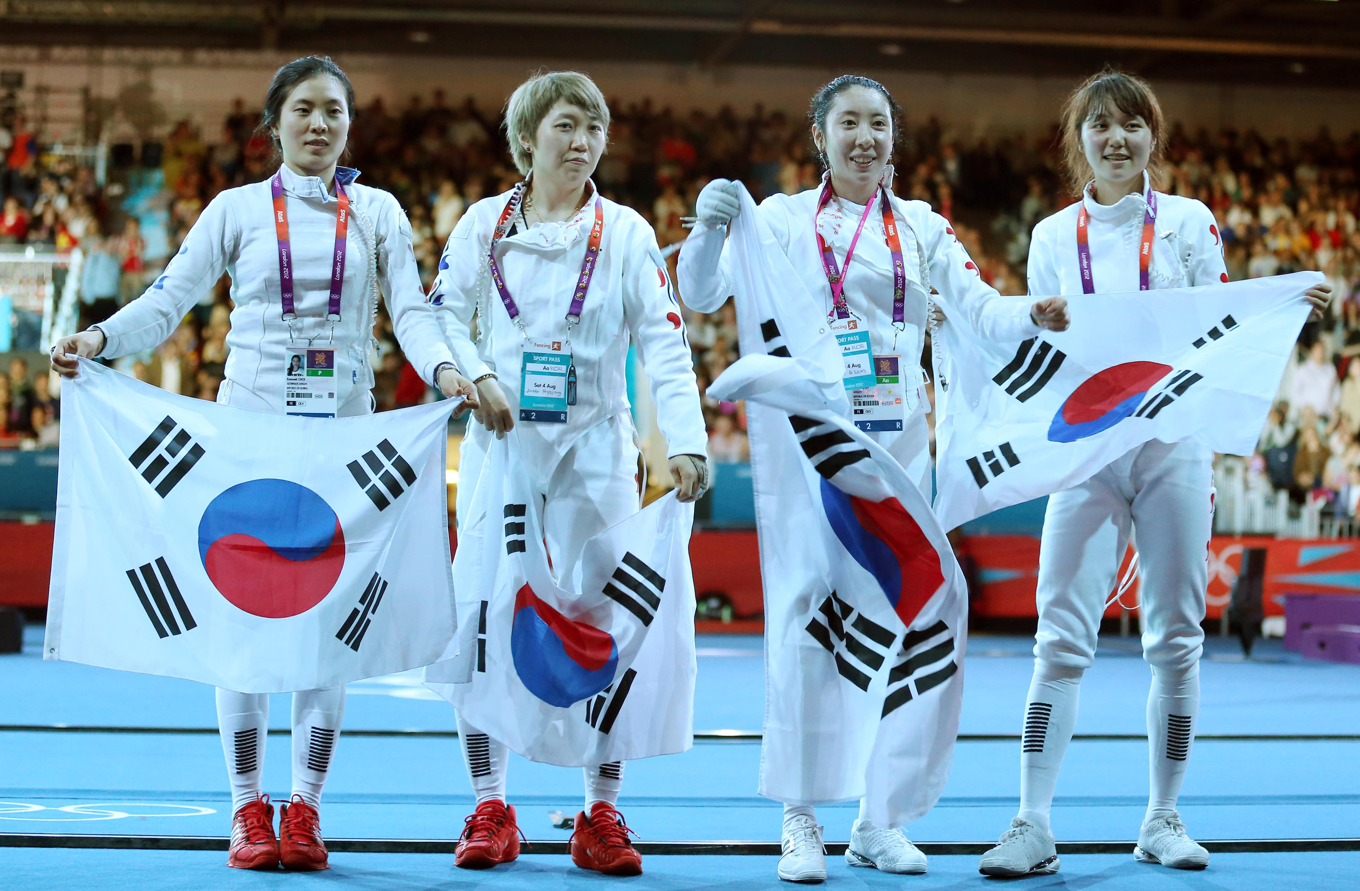 2012 London Olympic Games Korea women fencing epee team won the sivler medal of 2012 London Olympic Games 2012. 08. 05. hoto by Korean Olympic Committee Ministry of Culture, Sports and Tourism Korean Culture and Information Service 2012 런던 올림픽 한국 여자 에폐 단체전 은메달 획득 신아람, 정효정, 최인정, 최은숙 사진제공 - 대한체육회 문화체육관광부 해외문화홍보원